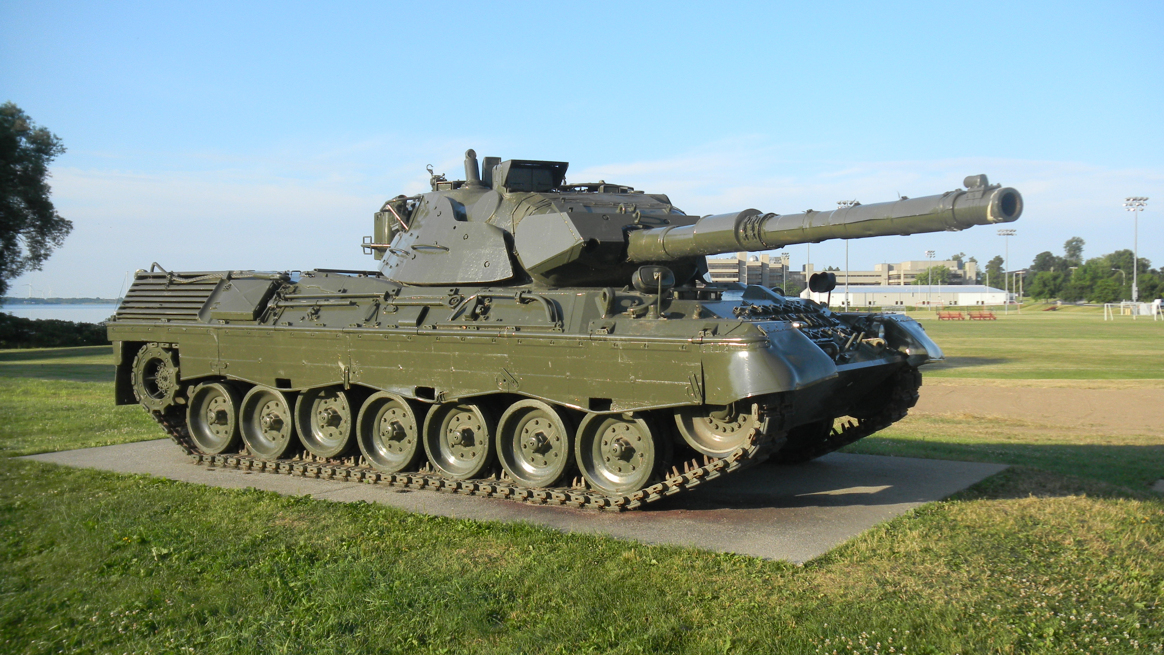 Canadian Forces Leopard C2 Main Battle Tank monument on display on the grounds of the Royal Military College, Kingston, Ontario, Canada